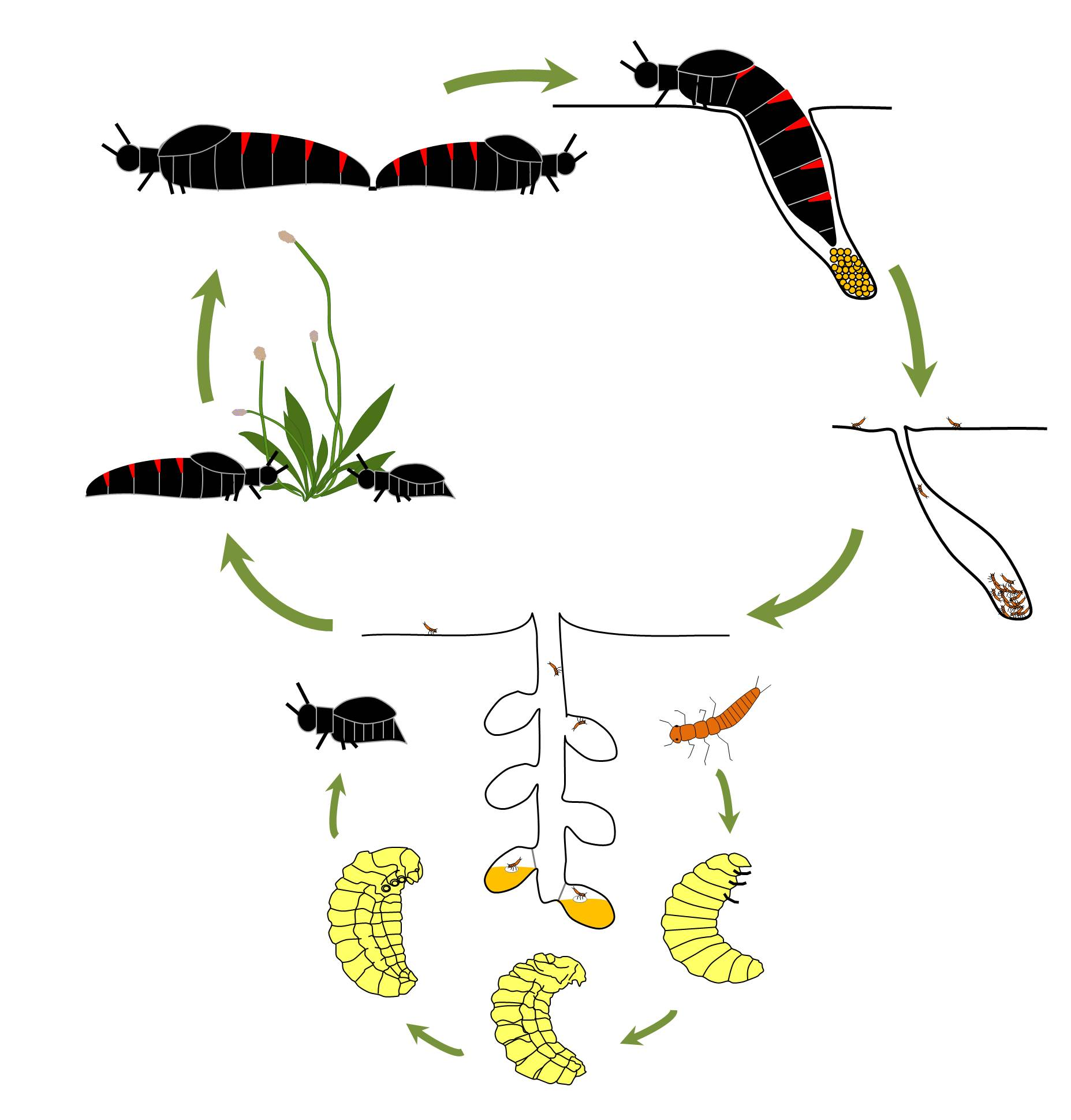 Berberomeloe majalis life-cycle